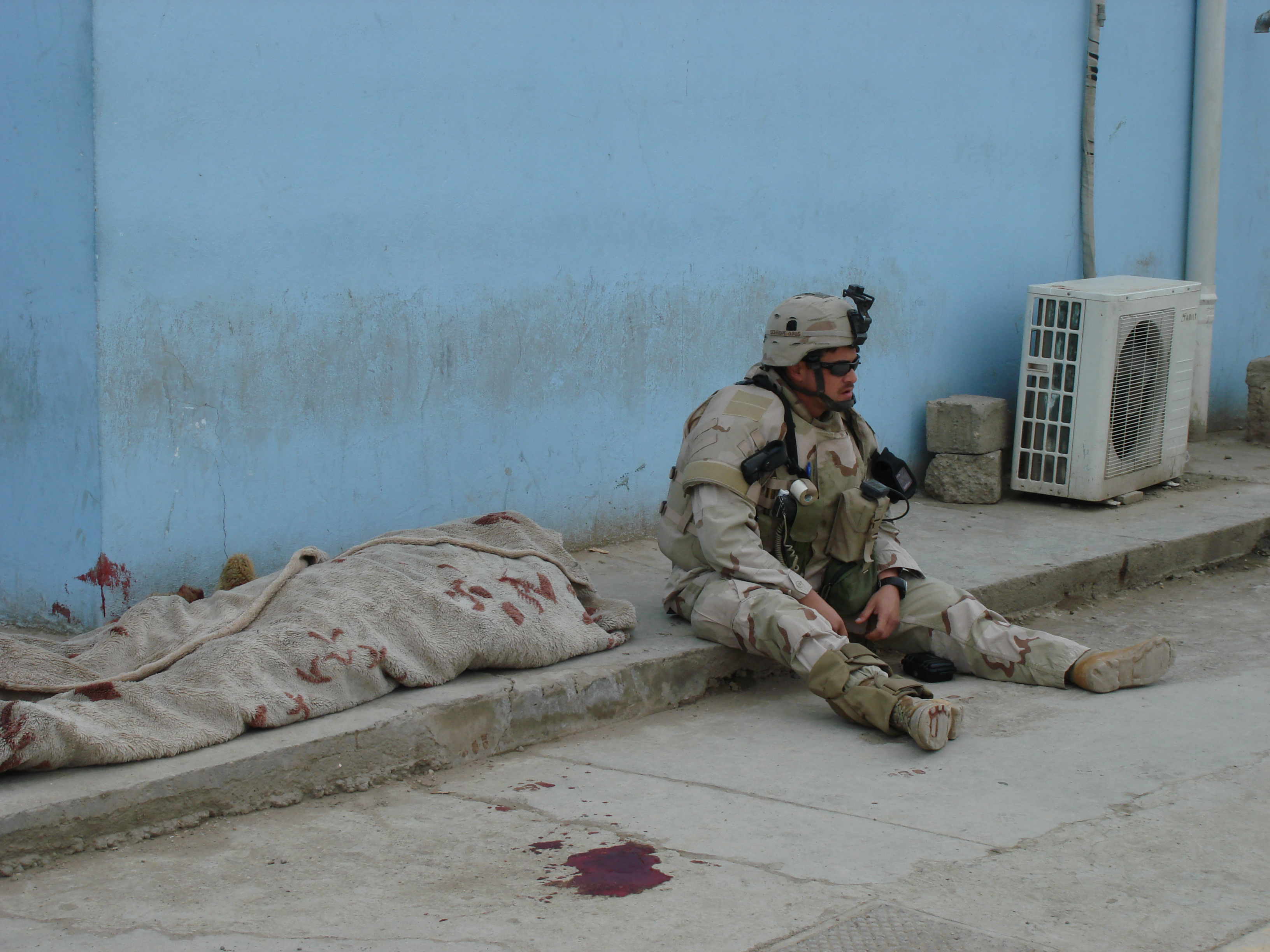 Capt. Robert Schrope sits next to an Iraqi body at the Hayy Al Amil Police Station, Baghdad Iraq